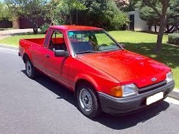 A Ford Escort Mk.III-derived Ford Bantam, post-facelift.